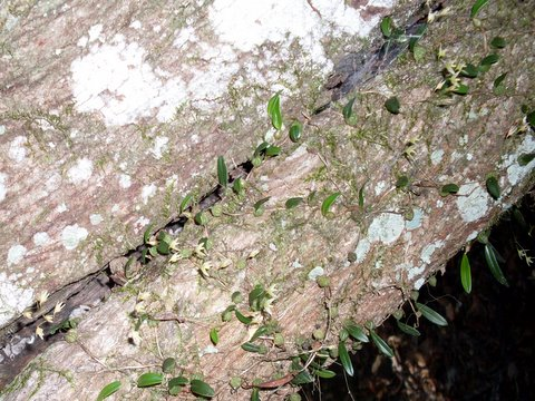 Bulbophyllum exiguum on a Grey Myrtle, Royal National Park, Walkers Garden, Sydney, New South Wales, Australia